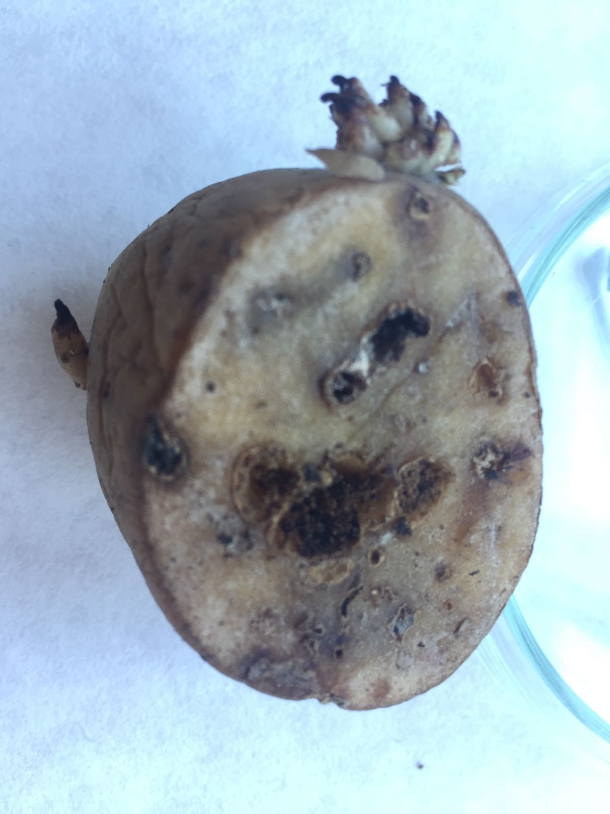 Potato after attack of Tecia solanivora